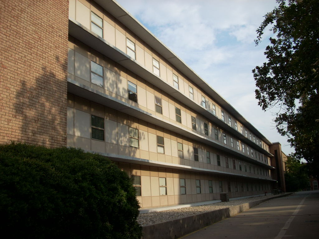 Remaining section of Johnstone Hall at Clemson University. Built by lift-slab method.